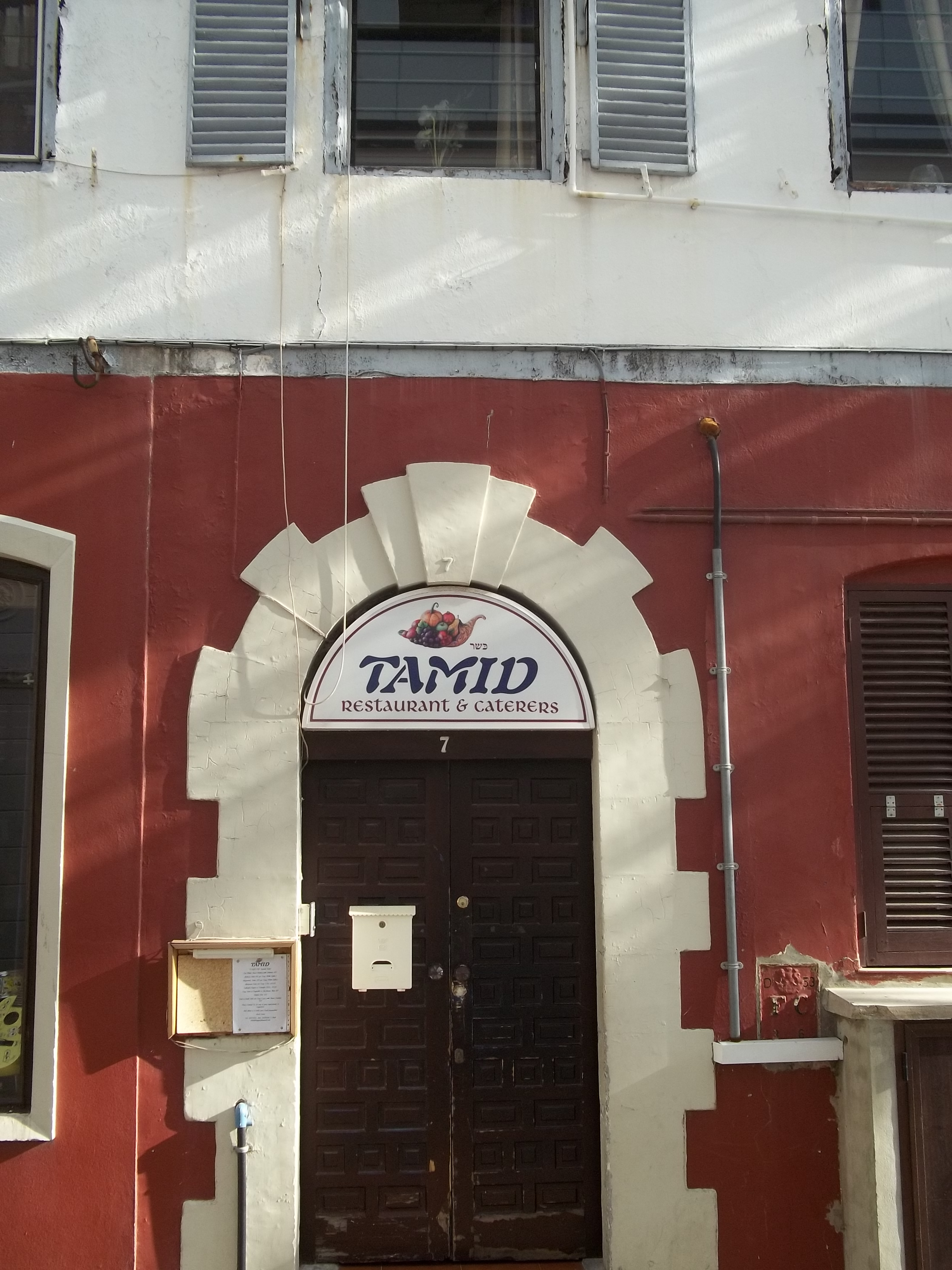 Gibraltar; Jewish community Tamid restaurant